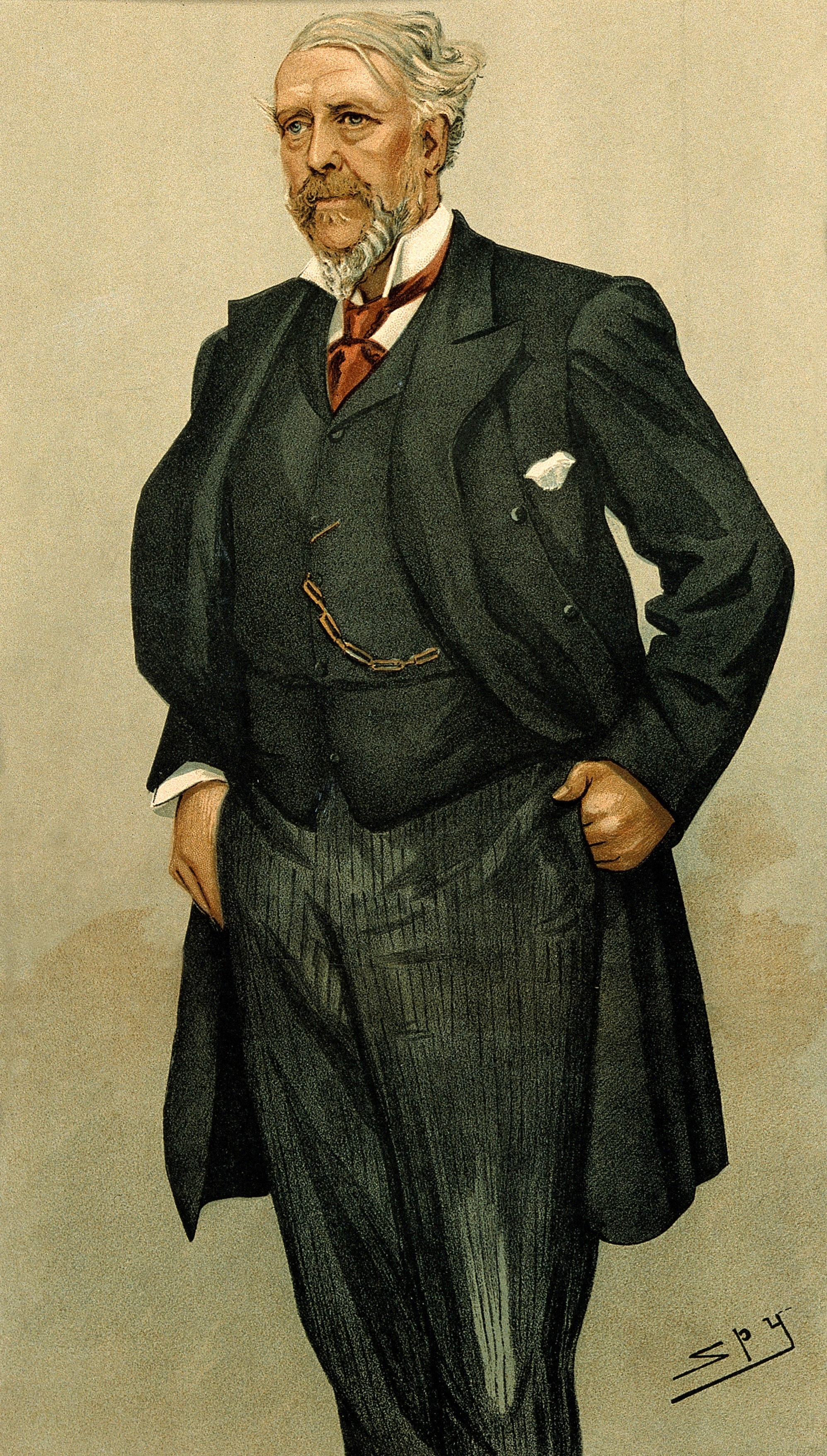 Caricature of Sir W MacCormac PRCS. Caption read "Gun shot wounds".